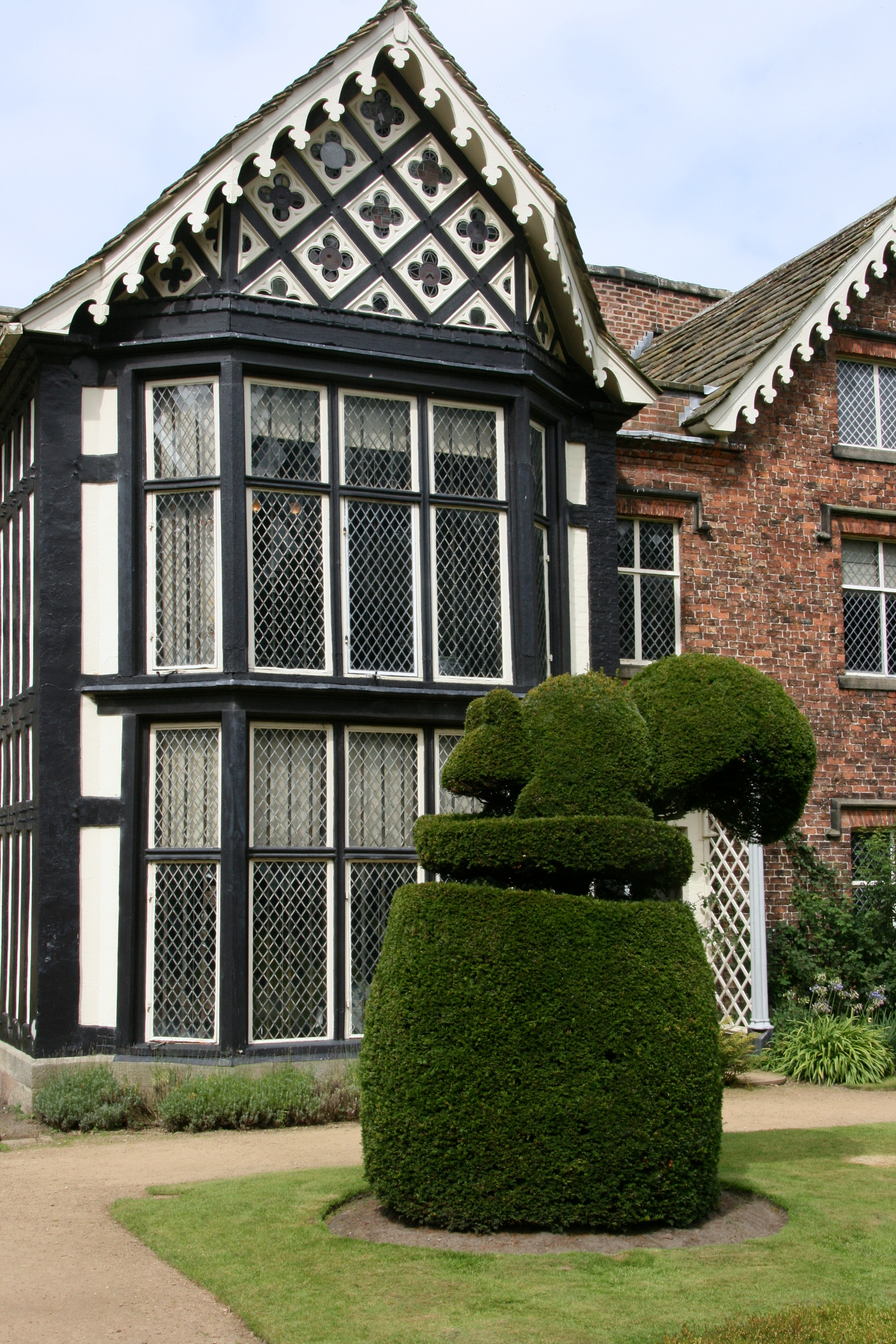 Rufford Old Hall.